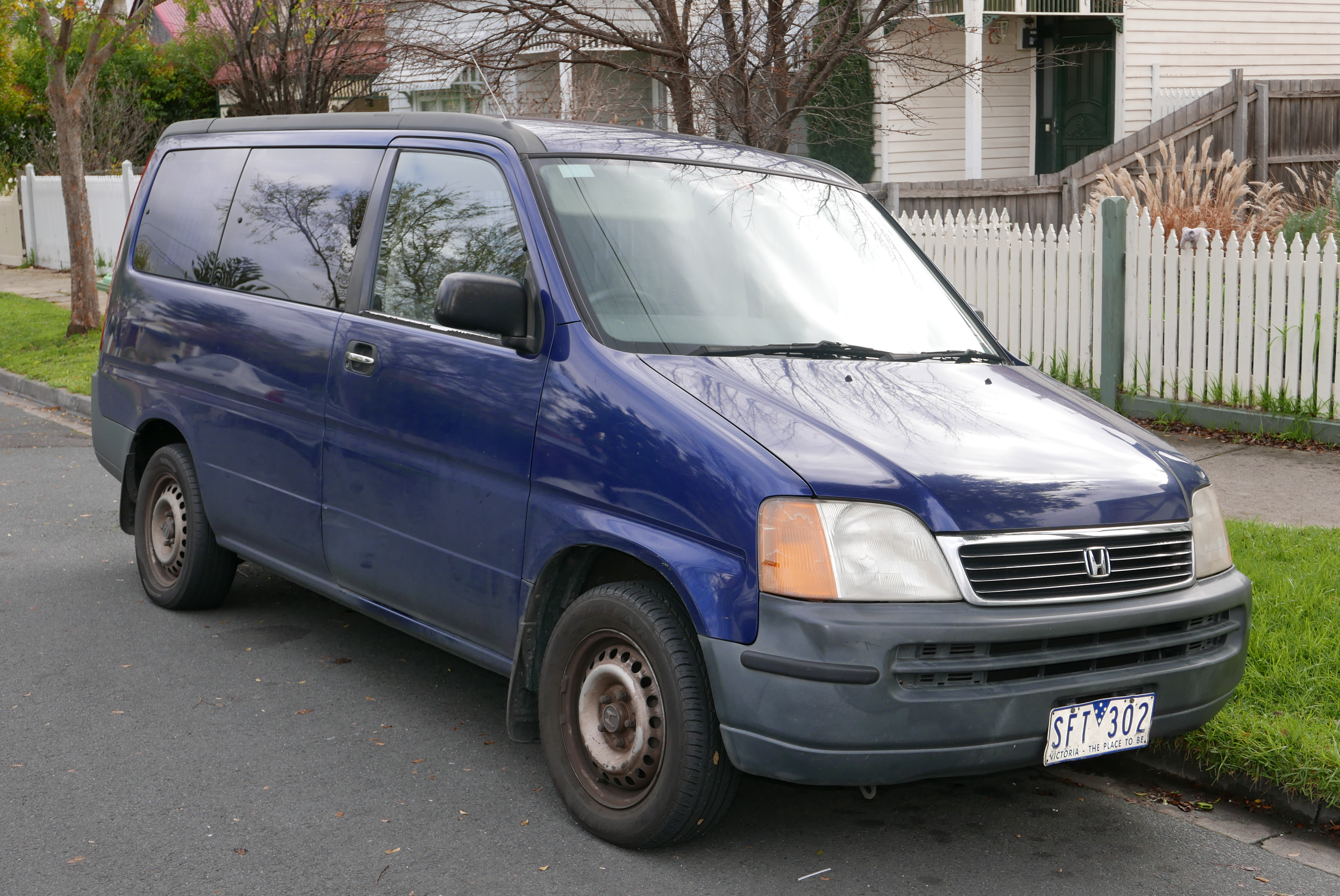 1997 Honda StepWGN N van. This is a grey import from Japan, complianced for Australia in May 2003. Photographed in Thornbury, Victoria, Australia. Vehicle registration enquiry results Jurisdiction Victoria Registration SFT302 Chassis code 6U90000RF11093799 Engine code B20B3137955 Compliance date 2003-05 Year of manufacture 1997